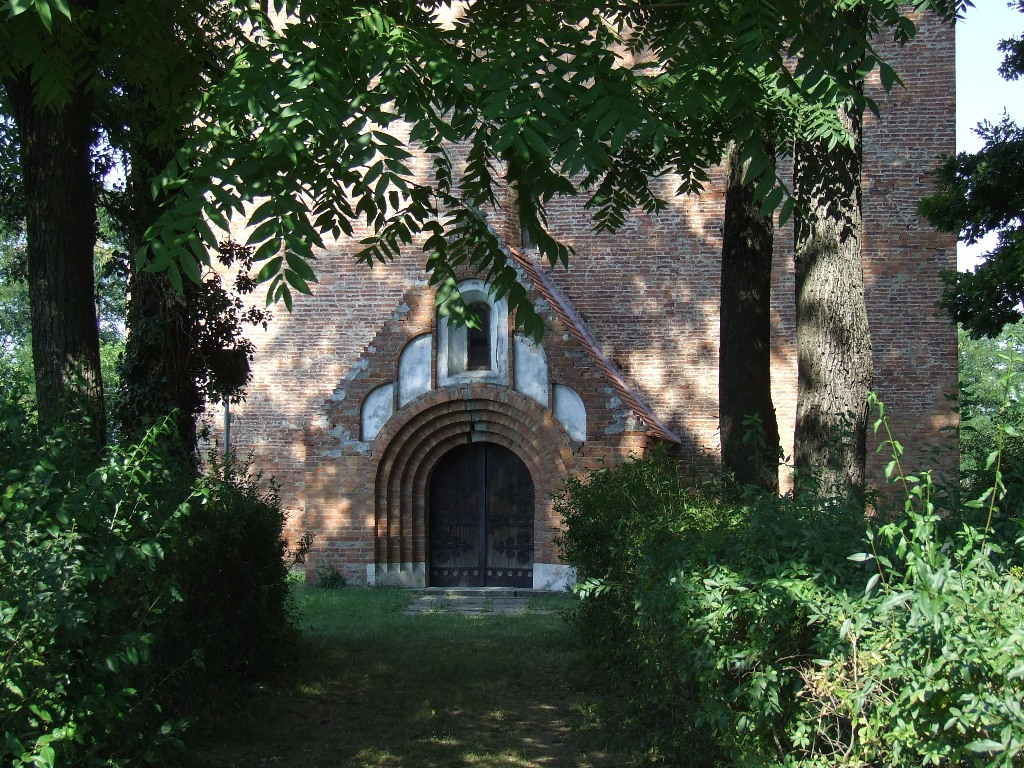 Reformat Church in Acâş, Satu Mare County, Romania